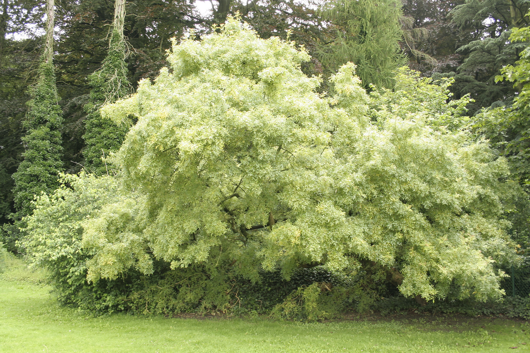 Weeping golden ash (Fraxinus excelsior Var. Aurea pendula).